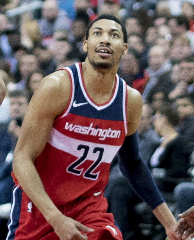 Otto Porter of the Washington Wizards on February 23, 2018 at Capital One Arena in Washington, D.C.